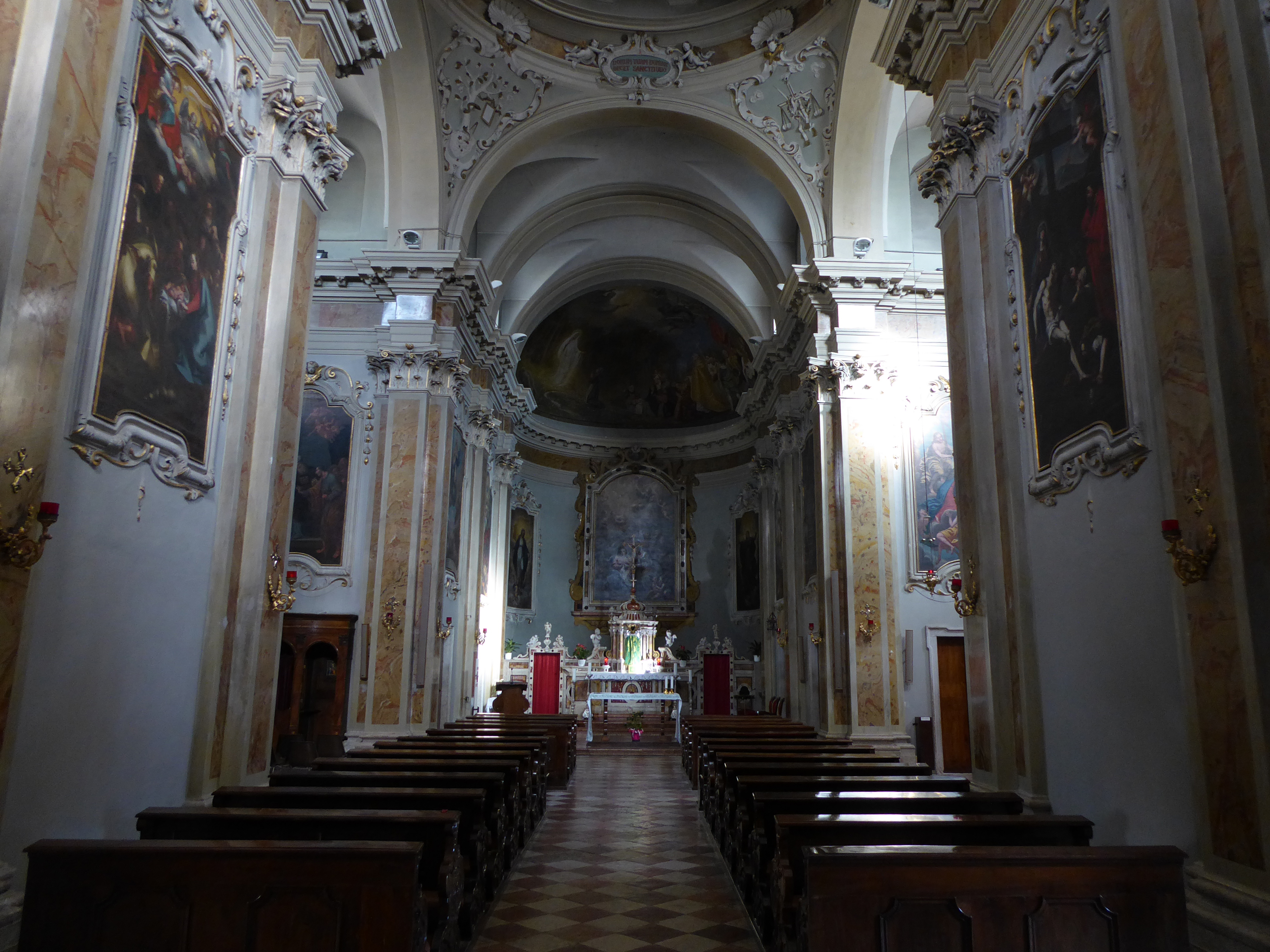 Santuario della Comparsa, Montagnaga (Baselga di Piné, Trentino, Italy), interior